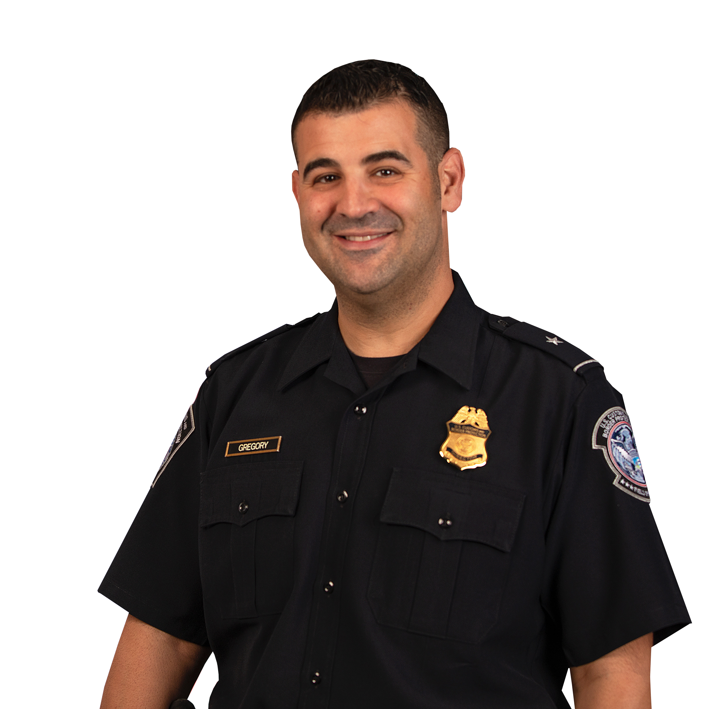 This is Louis Gregory, Director, CBP